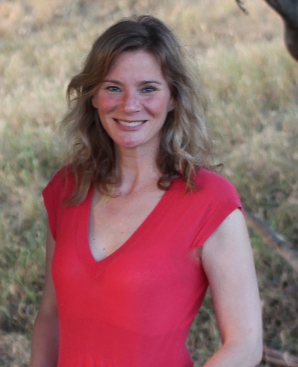 Christine E. Dickson on the Arroyo Mocho Trail in Pleasanton, CA (June, 2016)